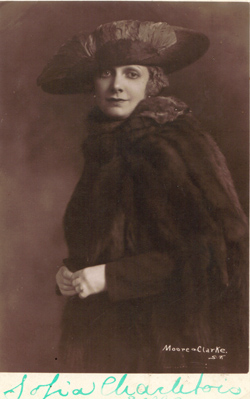 The picture comes from a postcard sent in Italy for Christmas to Fortune Gallo's family